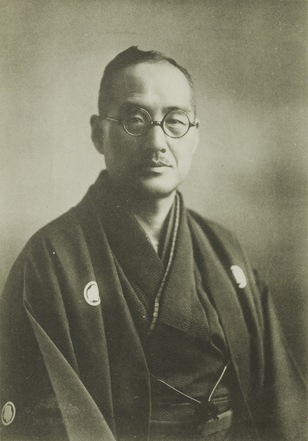 Portrait of Nomura Tokushichi II (第二代野村徳七, 1878 – 1945)